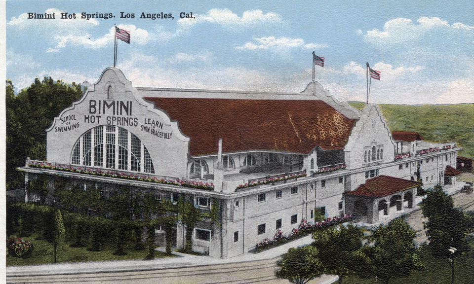 An exterior view of the Bimini Hot Springs building in Los Angeles, California. The side of the building reads, "Bimini Hot Springs, School of Swimming, Learn to Swim Gracefully." The building is surrounded by trees, with grassy open space behind it. The Bimini Baths were located near Third Street and Vermont Avenue, just west of downtown Los Angeles. Named for the island home of the legendary fountain of youth pursued by Ponce de Leon, the bath house opened in 1903, and was the property of a Dr. David W. Edwards. The hot springs were discovered when prospectors drilling for oil instead tapped into a mineral hot springs. Dr. Edwards built a large wooden building that housed a 50-yard main pool, as well as a separate pool for women, and several private, individual pools. There was a cafe and a balcony for observers near the main pool. The original building was destroyed by fire in November of 1905, but rebuilt the following year as a Mission-style structure designed by architect Thornton Fitzhugh. New features included a Turkish Bath area, two 40 by 40 foot pools for private parties, and rooftop gardens and balconies. The bath house was easily accessible by street car, and offered swimming lessons and hosted competitions in swimming and water polo. In 1951, however, the business went bankrupt and the building was demolished five years later. On back: "Bimini Hot Springs. The velvet bath. Where health and pleasure meet. Swimming Pools and Medical treatment Department. Write for descriptive literature."